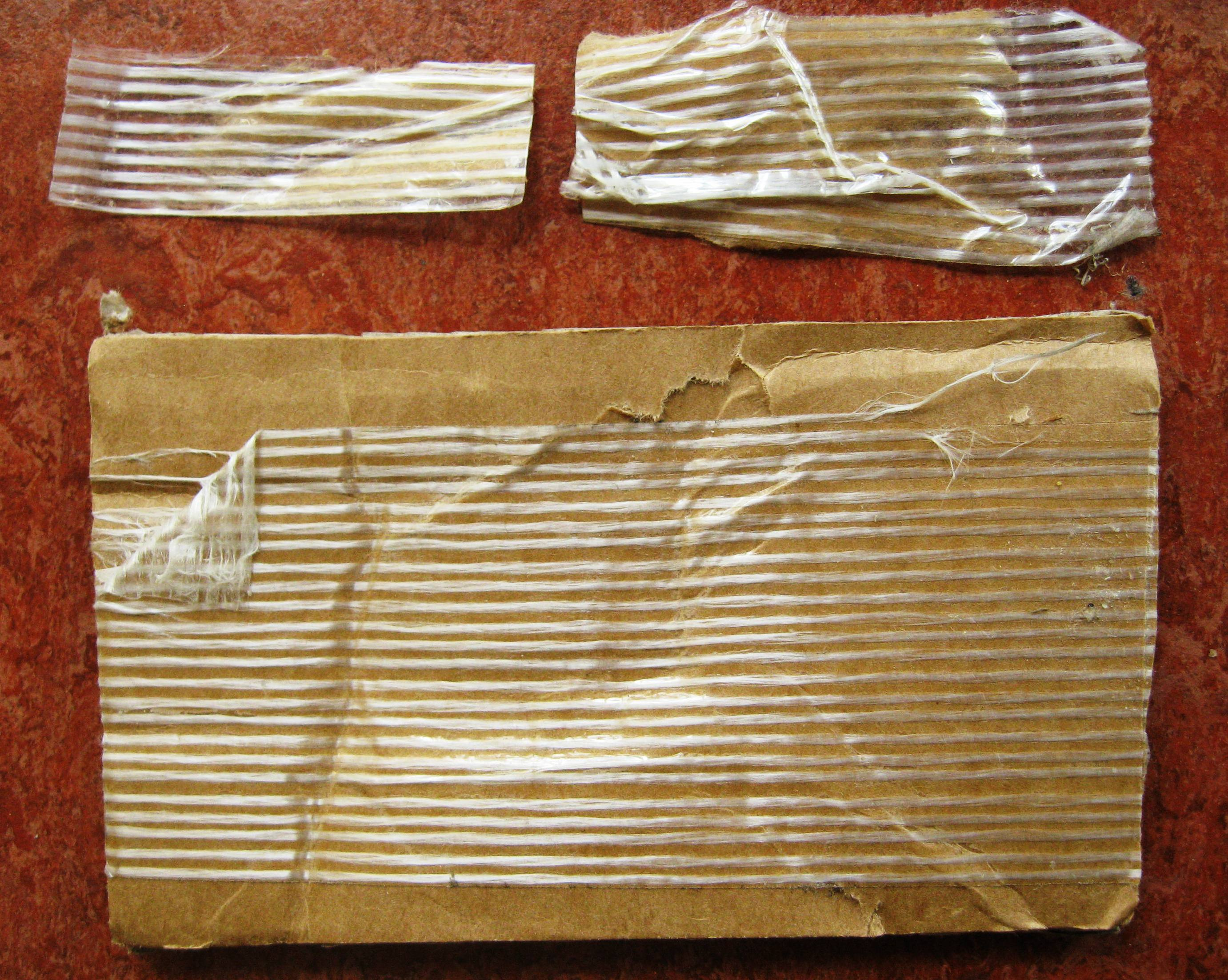 The tape, which is reinforced with polymer fibers. This tape retains the stickiness, but its strength is much higher.